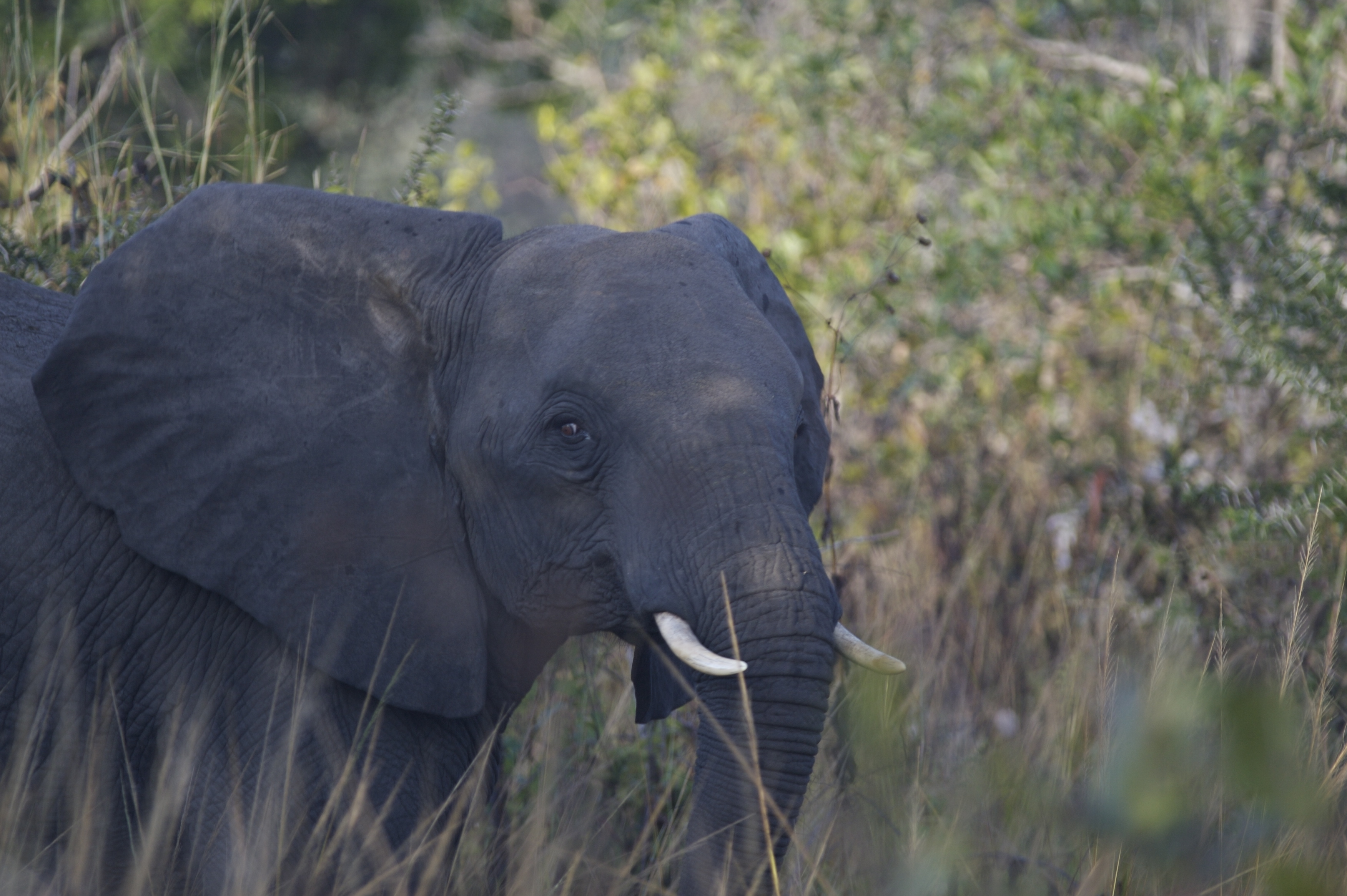 Aware of human presence